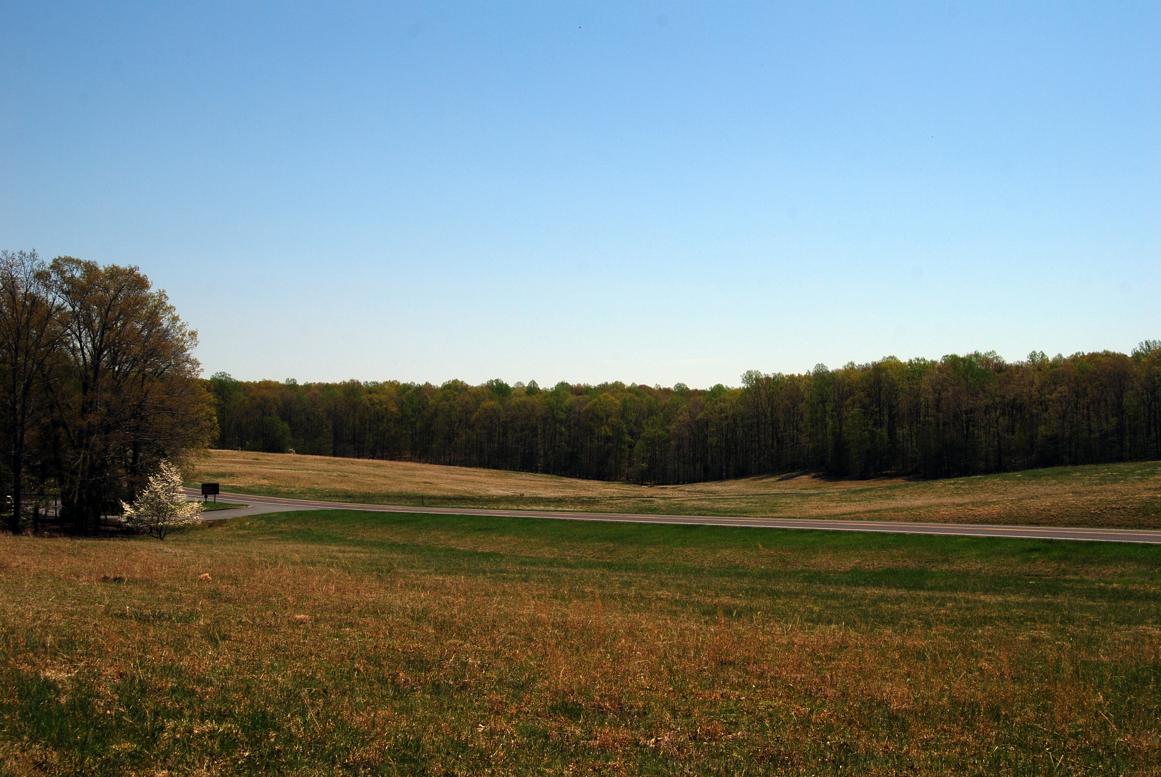 Saunders Field, the site of major fighting on the Orange Court House Turnpike during the Battle of the Wilderness, because it was one of the few clear, open areas on this part of the battlefield